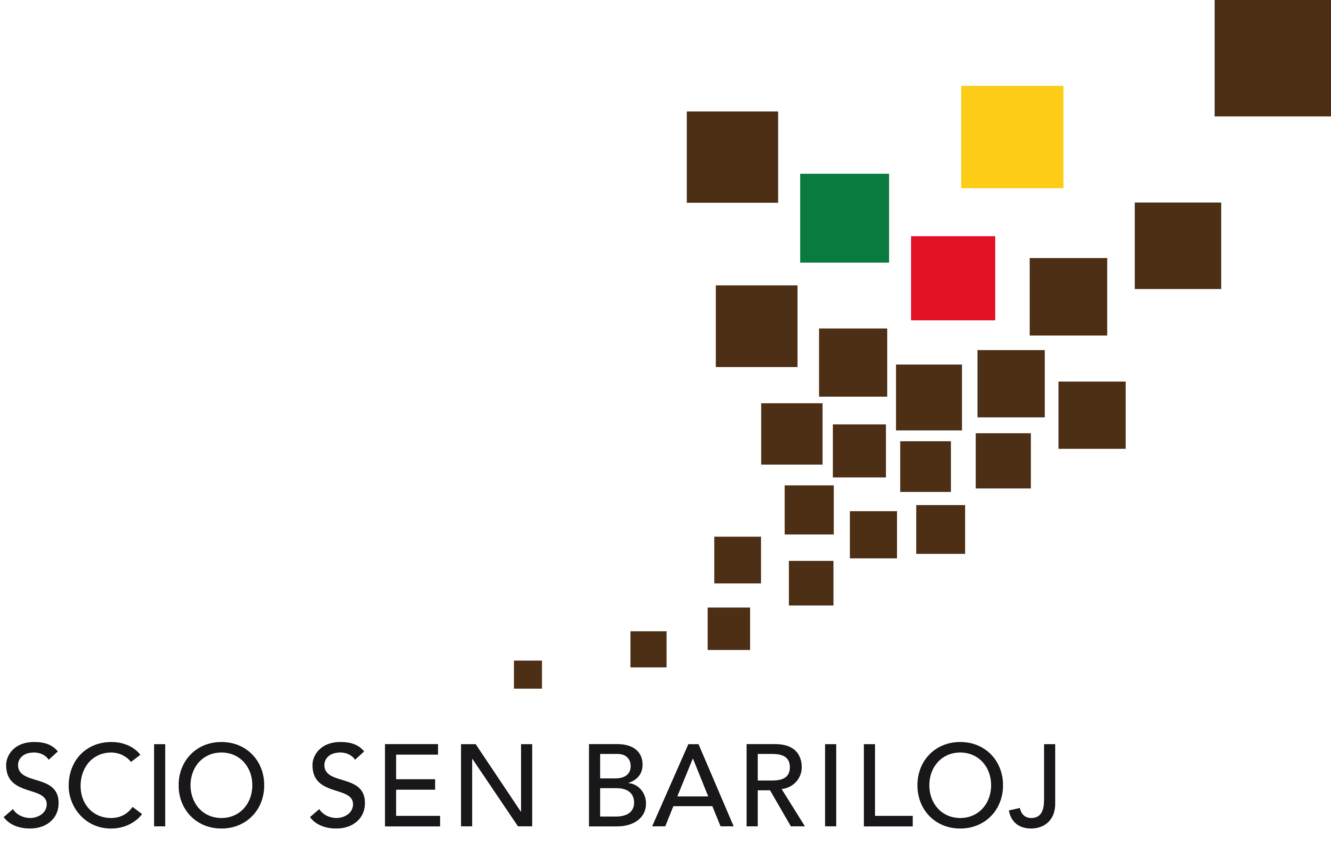 Logo of NGO "Scio Sen Bariloj", "Savoir Sans Barrières". logo by Francesca Ruta